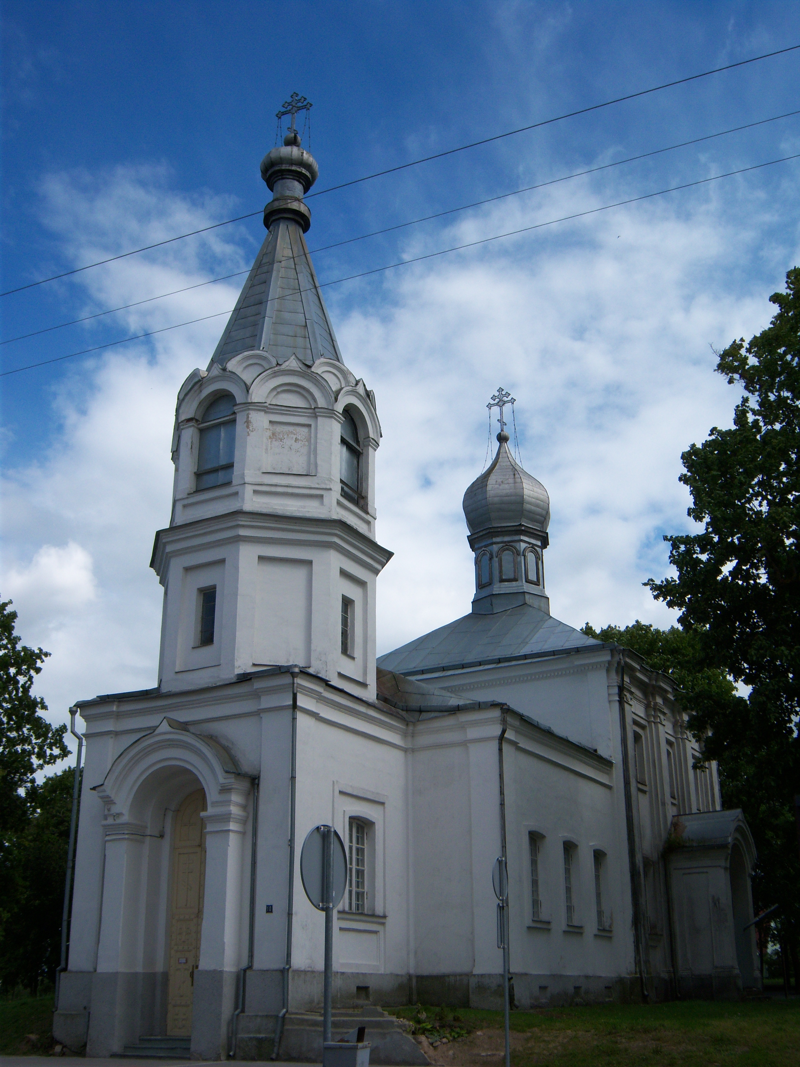 Orthodox Church, Raseiniai, Lithuania